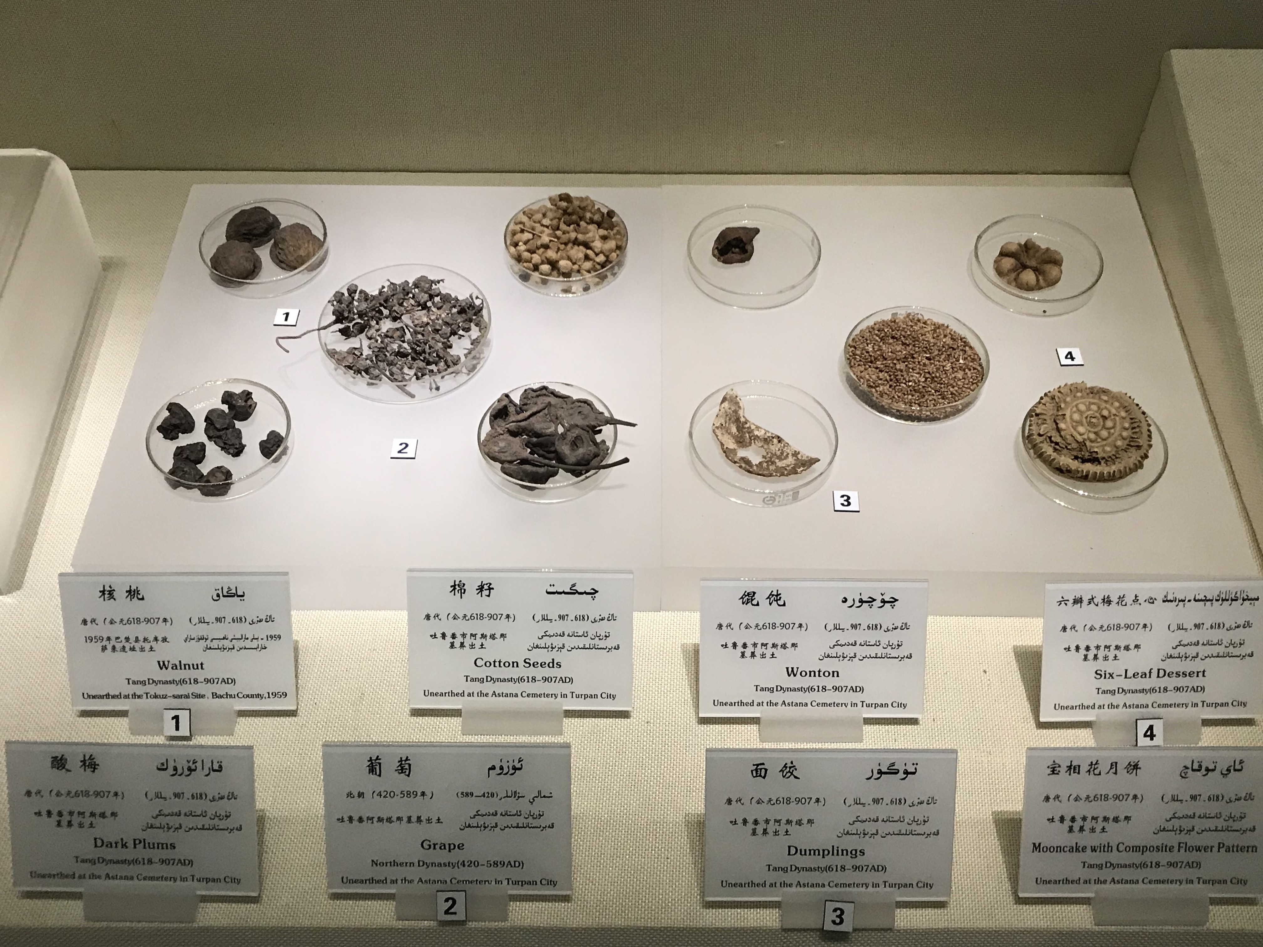 Picture taken at Xinjiang Museum